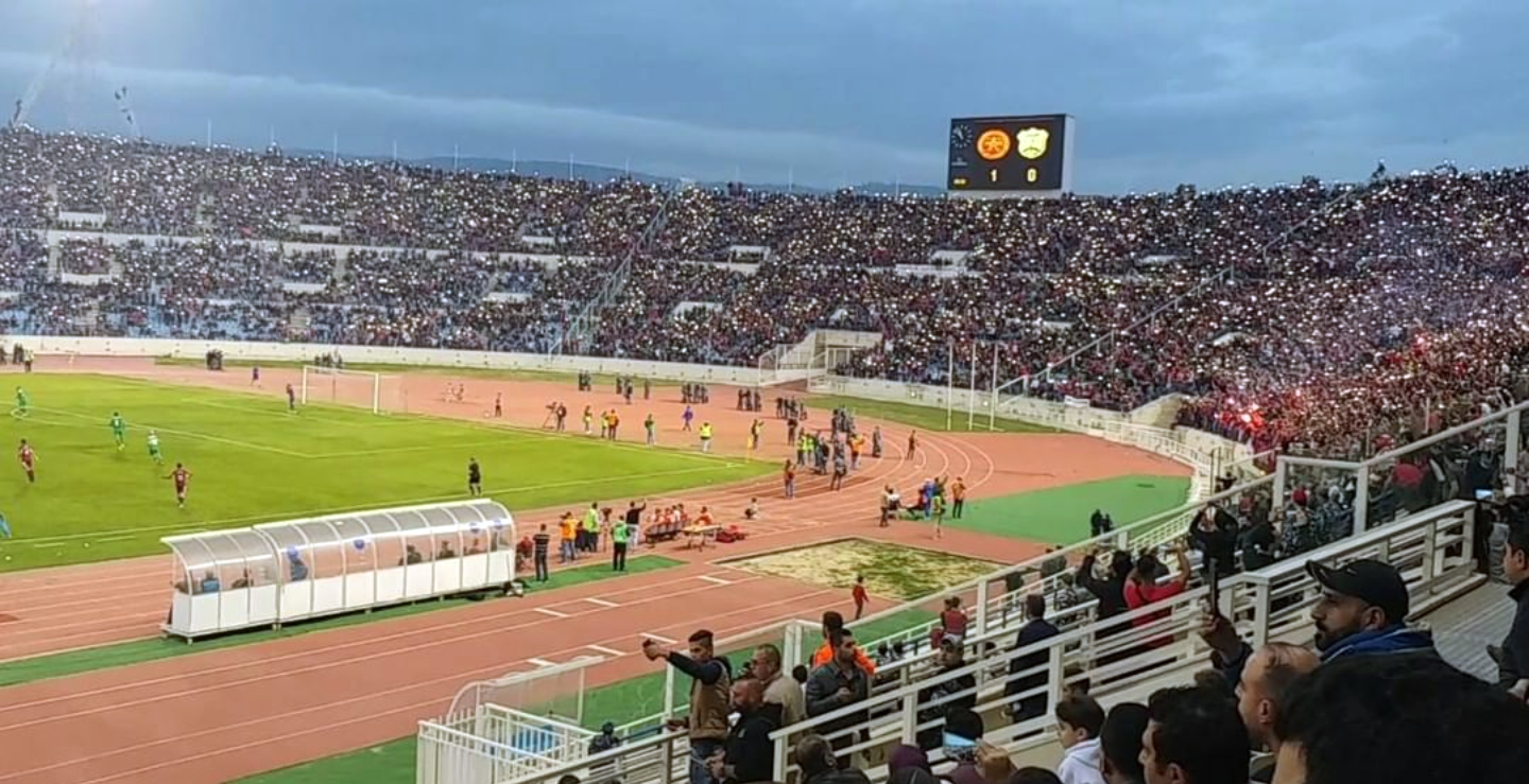 Nejmeh fans and Ultras during the 2017–18 Lebanese FA Cup match against Ansar.